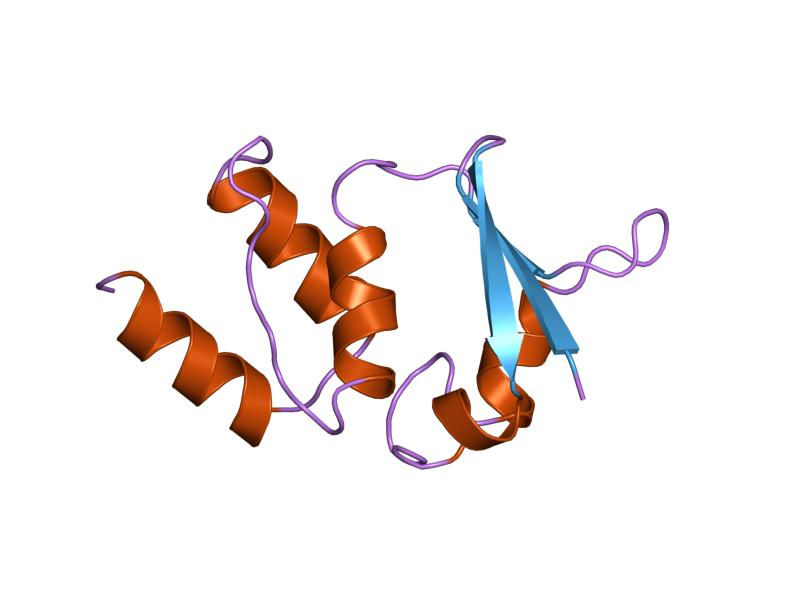 Cartoon representation of the molecular structure of protein registered with 1t1d code.